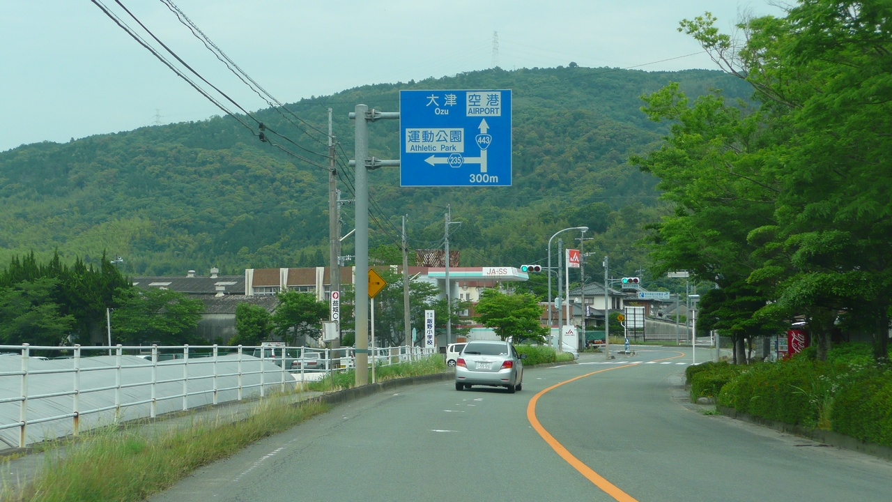 National Route 443 (Mashiki Town, Kumamoto, Japan)